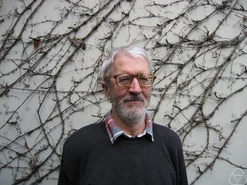 Boris Venkov, Oberwolfach 2005